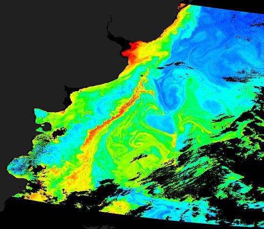 This Sea-viewing Wide Field-of-view Sensor (SeaWiFS) image shows a high concentration of phytoplankton chlorophyll in the Brazil Current Confluence region east of Argentina.